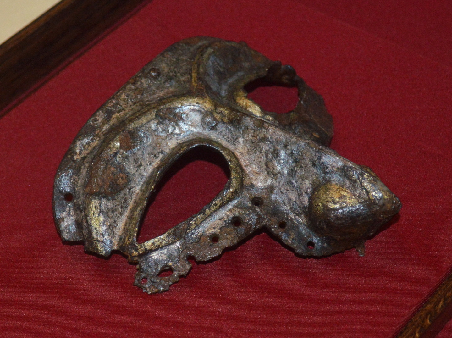 Half-mask of a helmet, Vshchizh, 12-13 century.